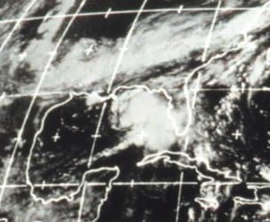 Tropical Storm Becky in the northeastern Gulf of Mexico on July 21, 1970